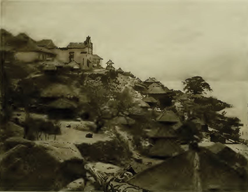 Another view of San Antonio Palopó, Sololá in 1895.